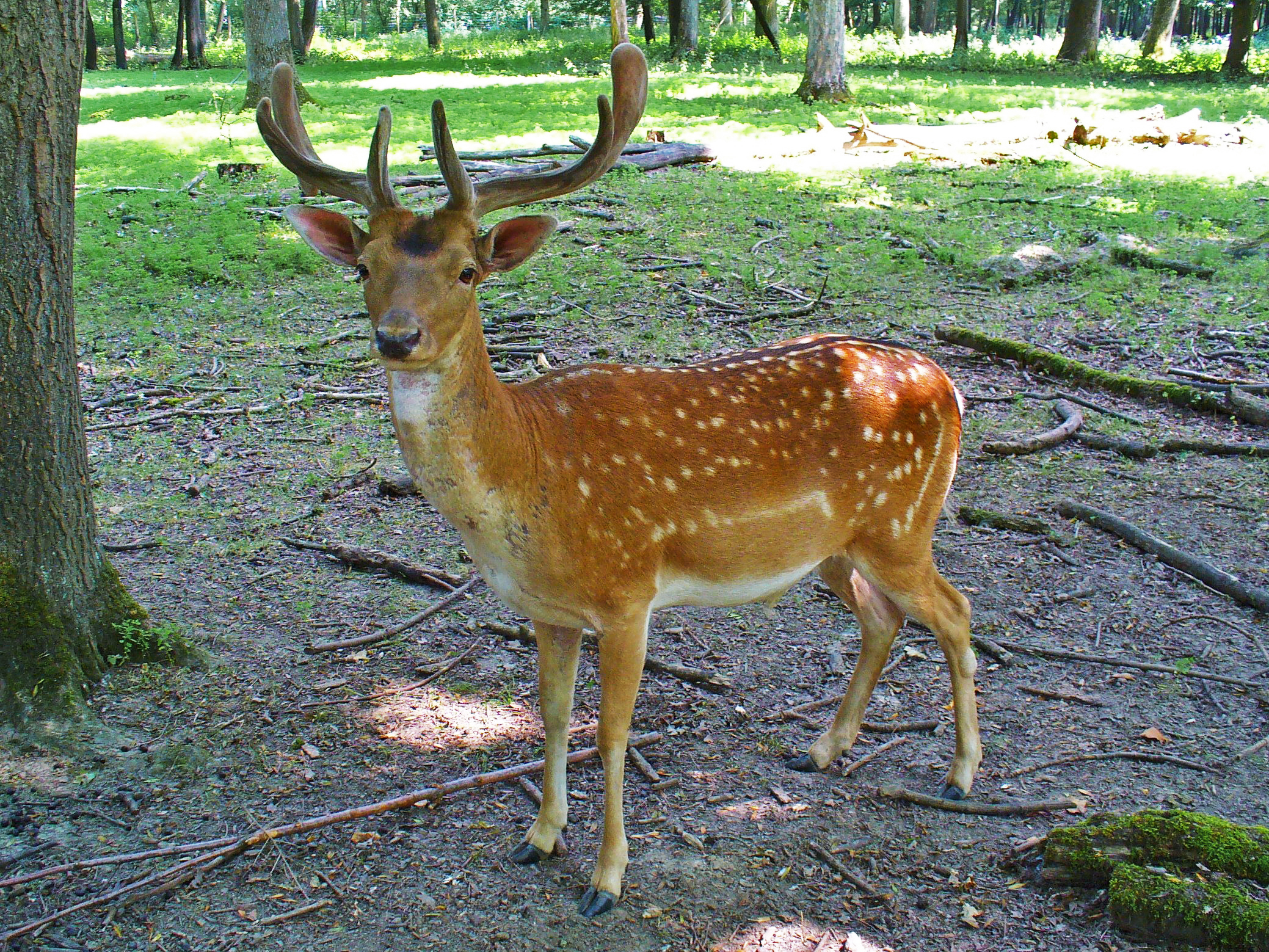 Dama dama, Cervidae, Fallow Deer. Wildgehege Rappenwörth, Karlsruhe, Germany.